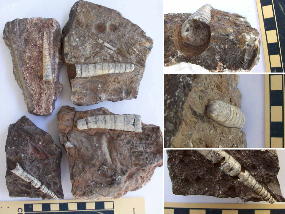 Various fossil Nautiloids from latest Silurian-Early Devonian of Erfoud (Maroc).